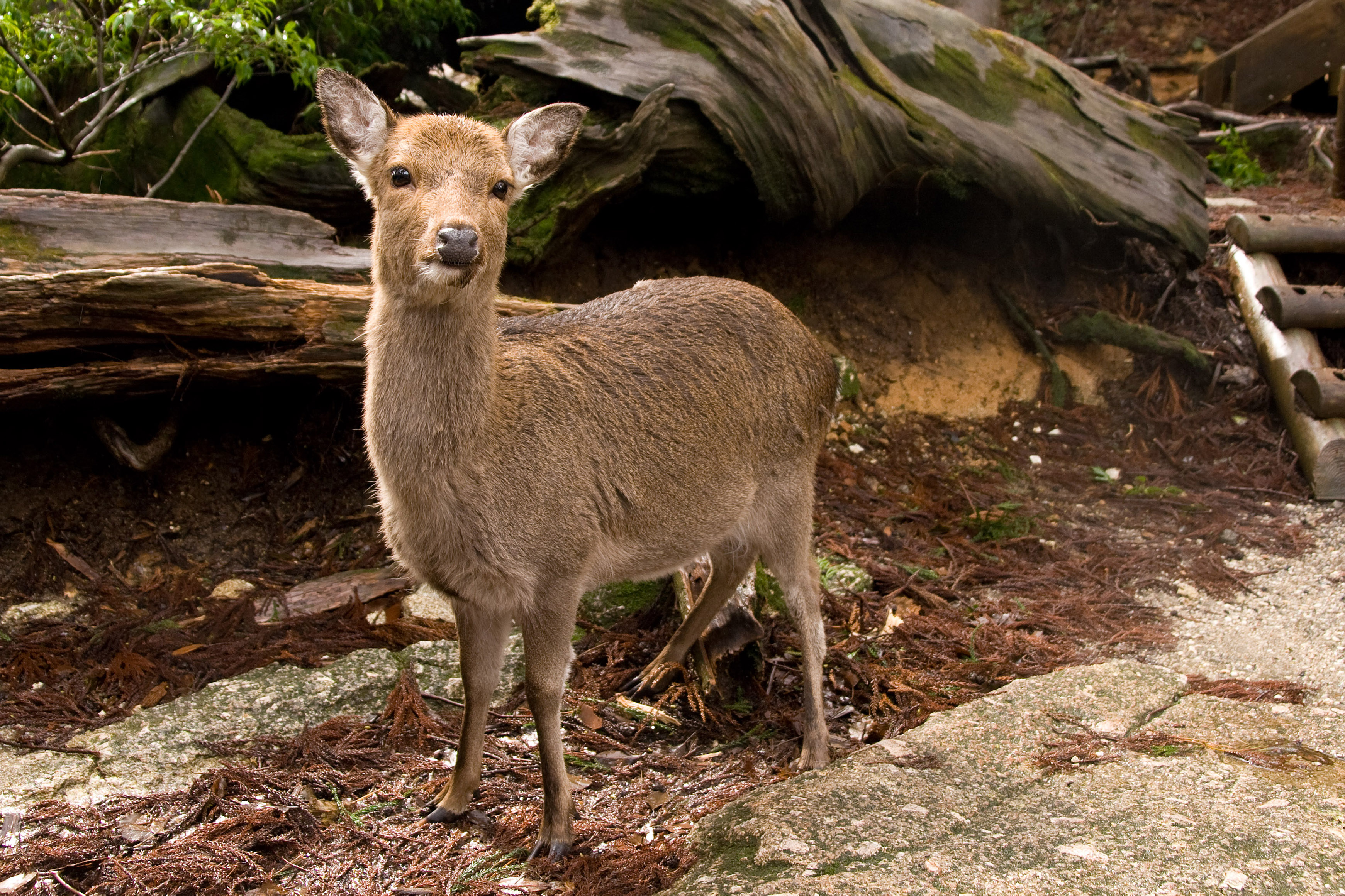 Sika Deer